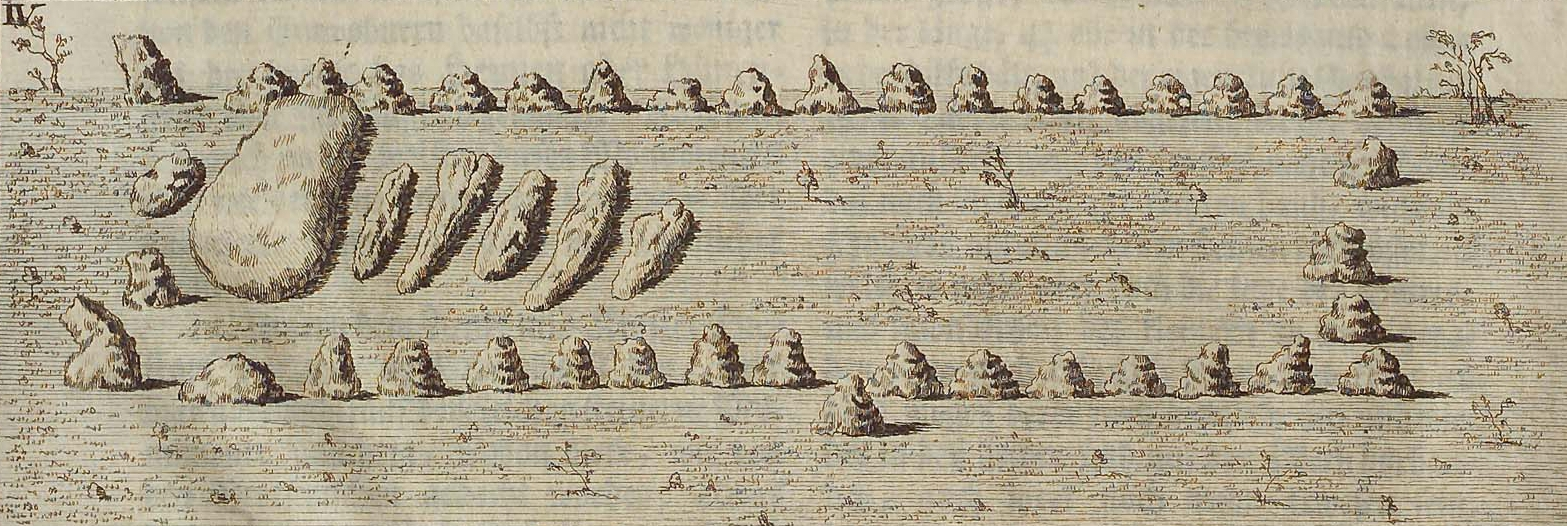 Now destroyed Dolmen at Bretsch, depicted in Johann Christoph Bekmann, Bernhard Ludwig Bekmann: Historische Beschreibung der Chur und Mark Brandenburg nach ihrem Ursprung, Einwohnern, Natürlichen Beschaffenheit, Gewässer, Landschaften, Stäten, Geistlichen Stiftern etc. [...]. Vol. 1, Berlin 1751